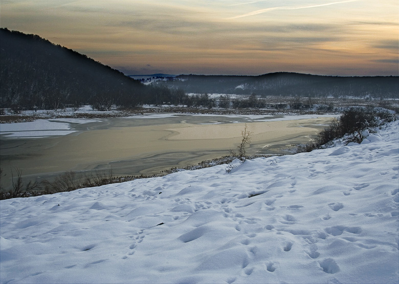 Mandra Dam near Burgas, Bulgaria.